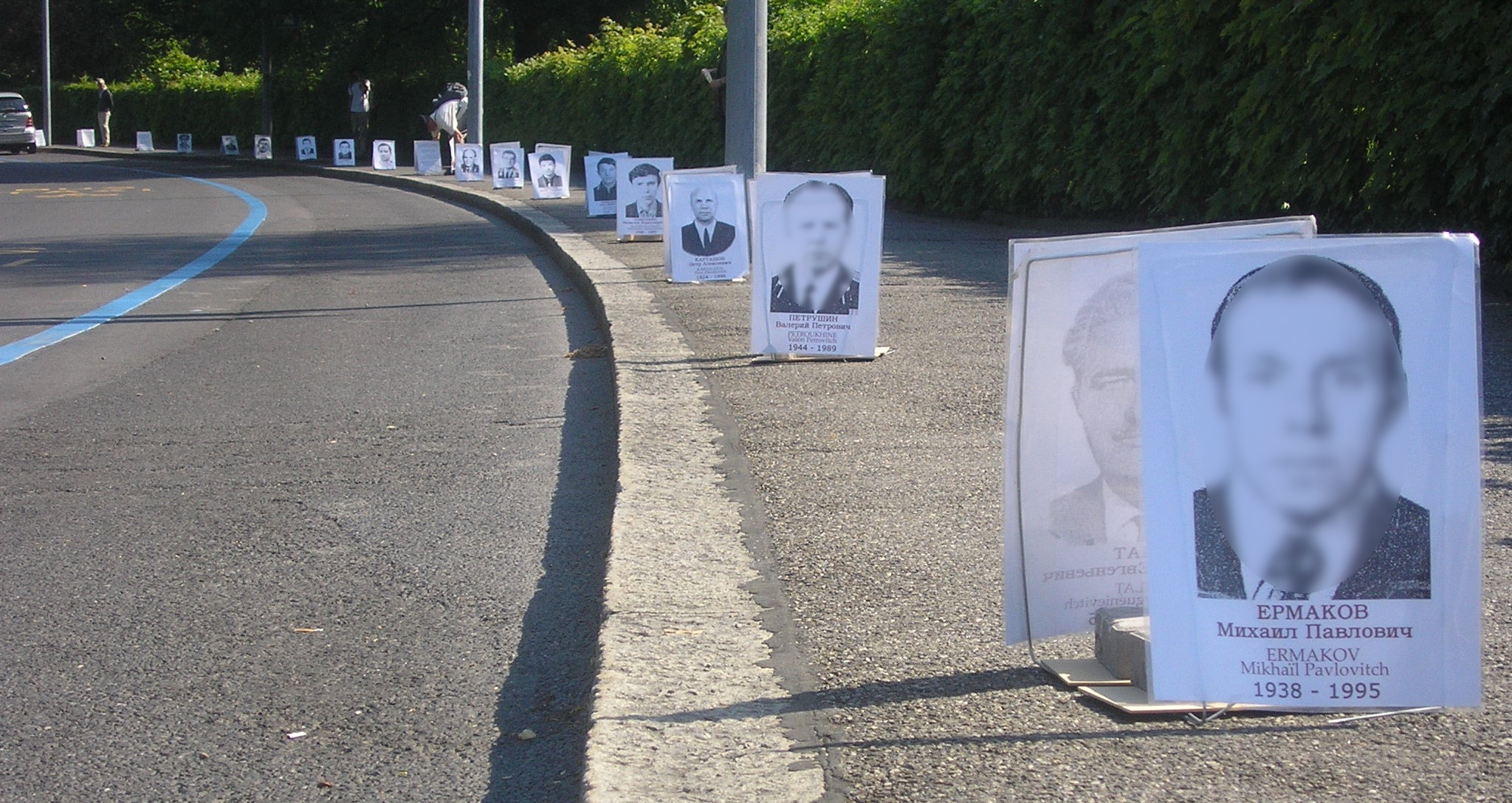 Demonstration on Chernobyl Day near WHO in Geneva to ask for the amendement of the WHO-IAEA agreement. Pictures of liquidators